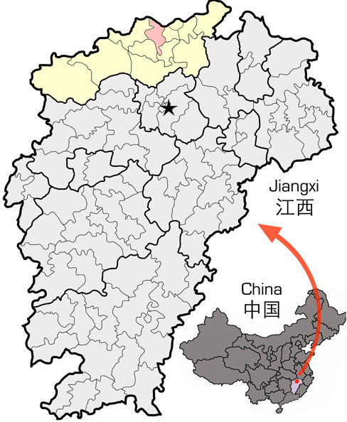 Map showing location of Jiujiang, Jiujiang in Jiangxi Province China